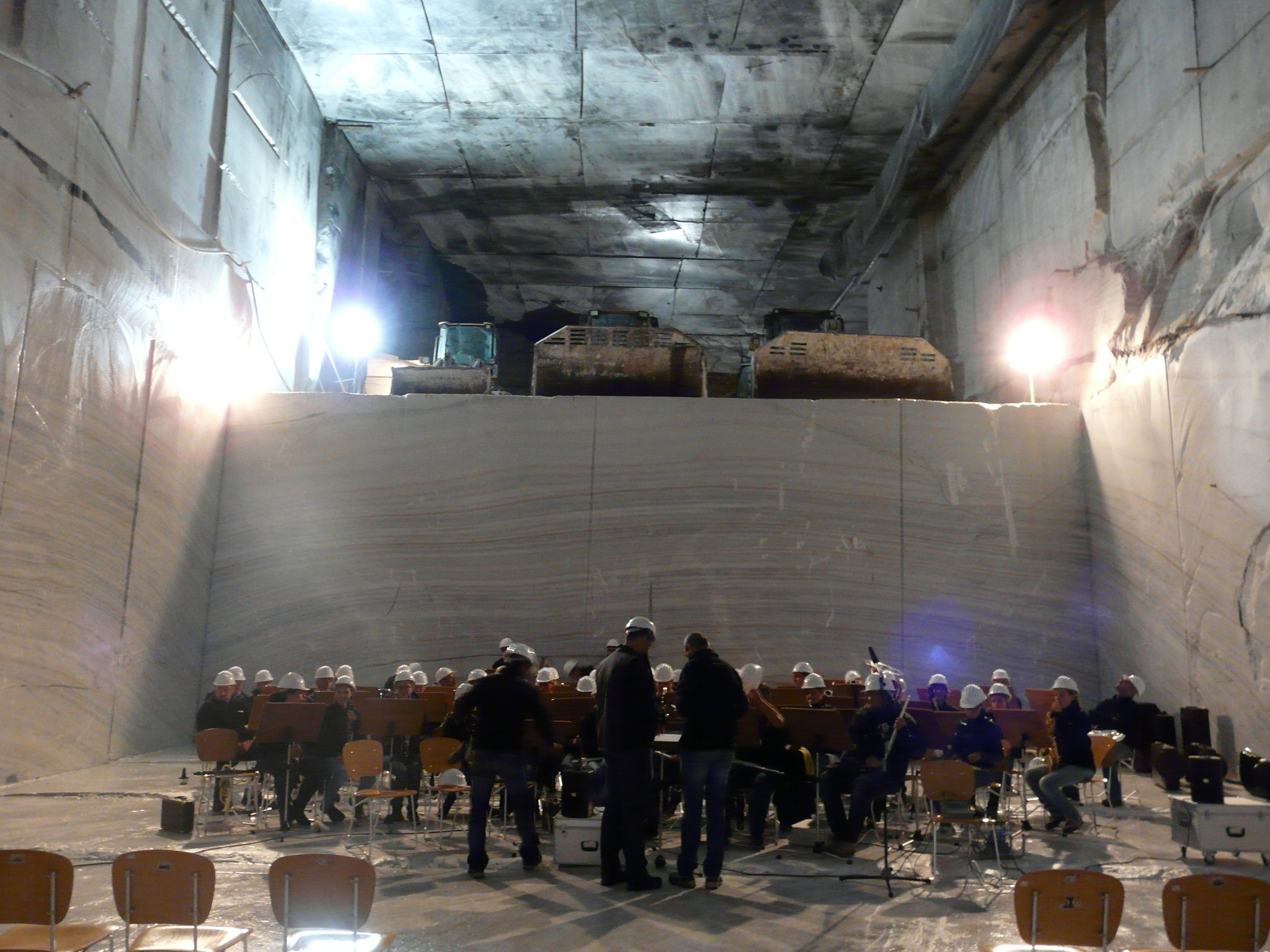 Concert in the underground mine of Göflaner marble